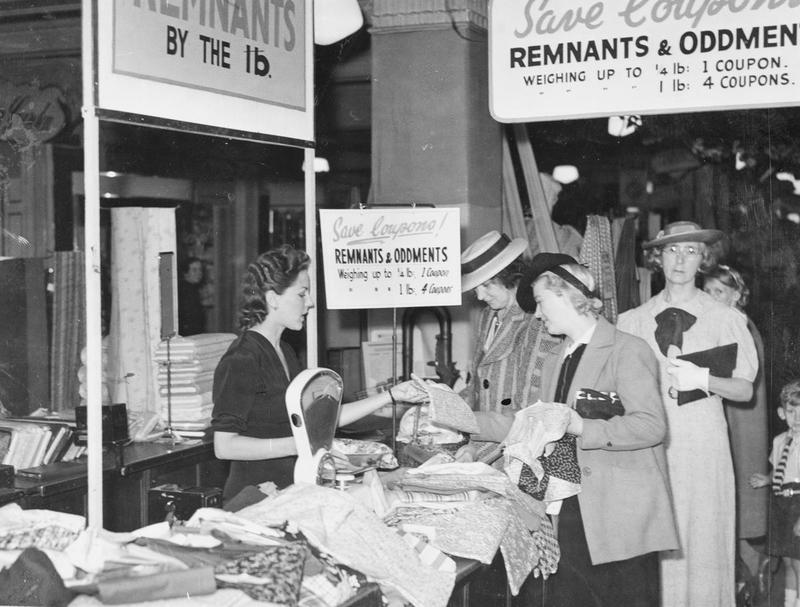 "make Do and Mend" in Britain during the Second World War Remnants and oddments of material being sold by the pound at Kennard's store, Croydon, London.